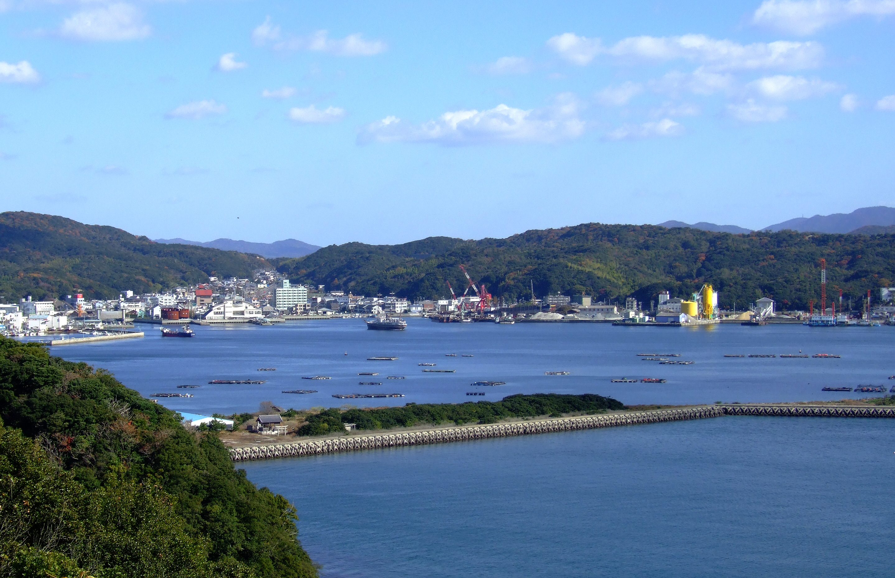 Fukura port in Awaji-shima(island), Japan.